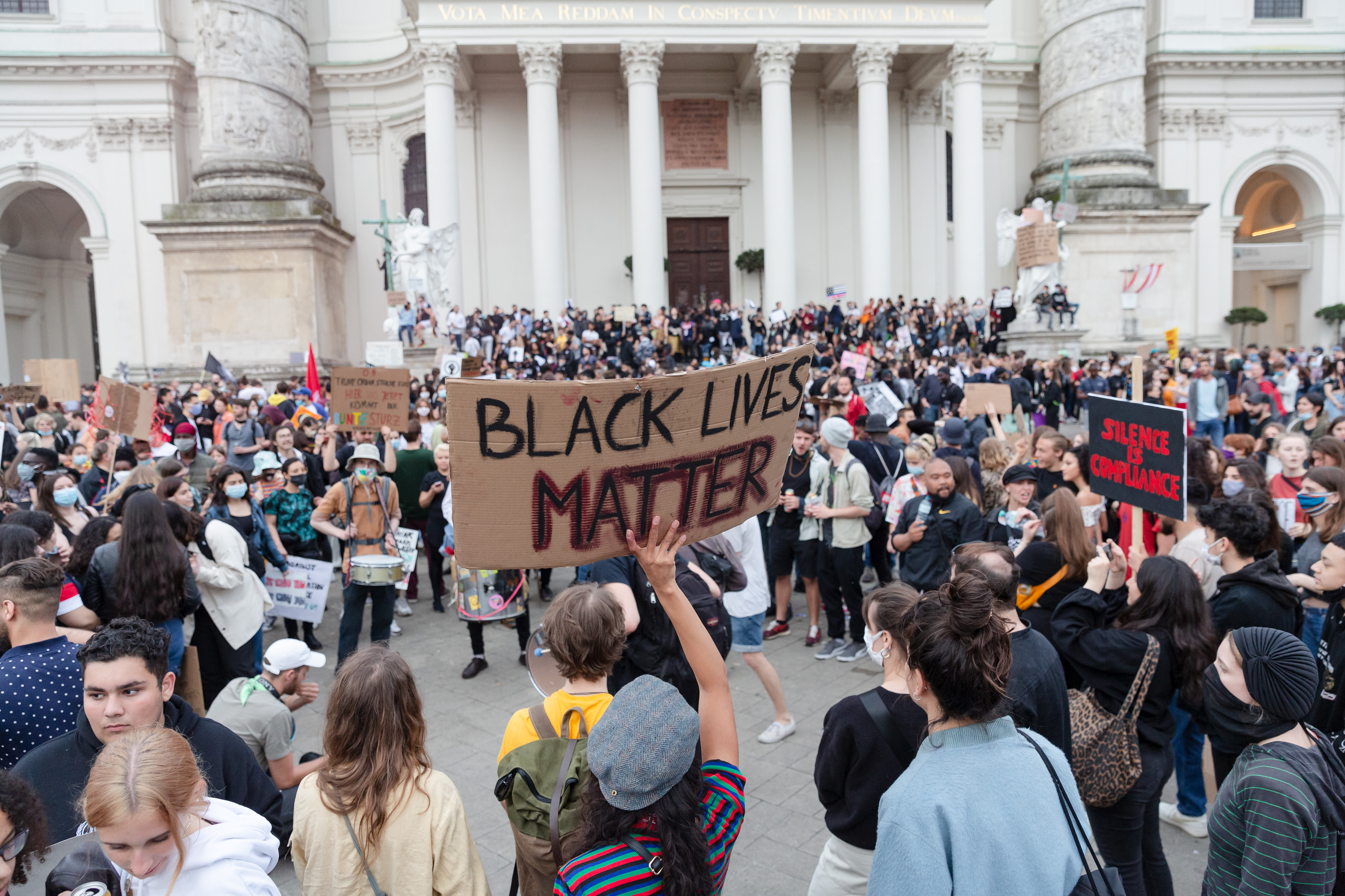 Protest Black Lives Matter Vienna (see also George Floyd protests) in Vienna,Austria.